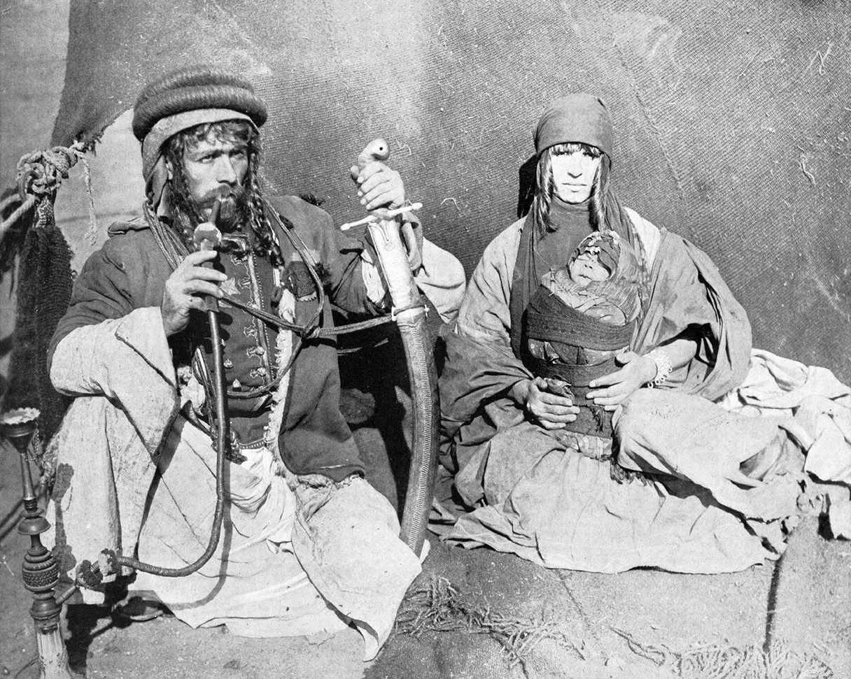 Syrian Bedouin, Khalil Sarkees, with family at the World's Columbian Exposition, 1893.